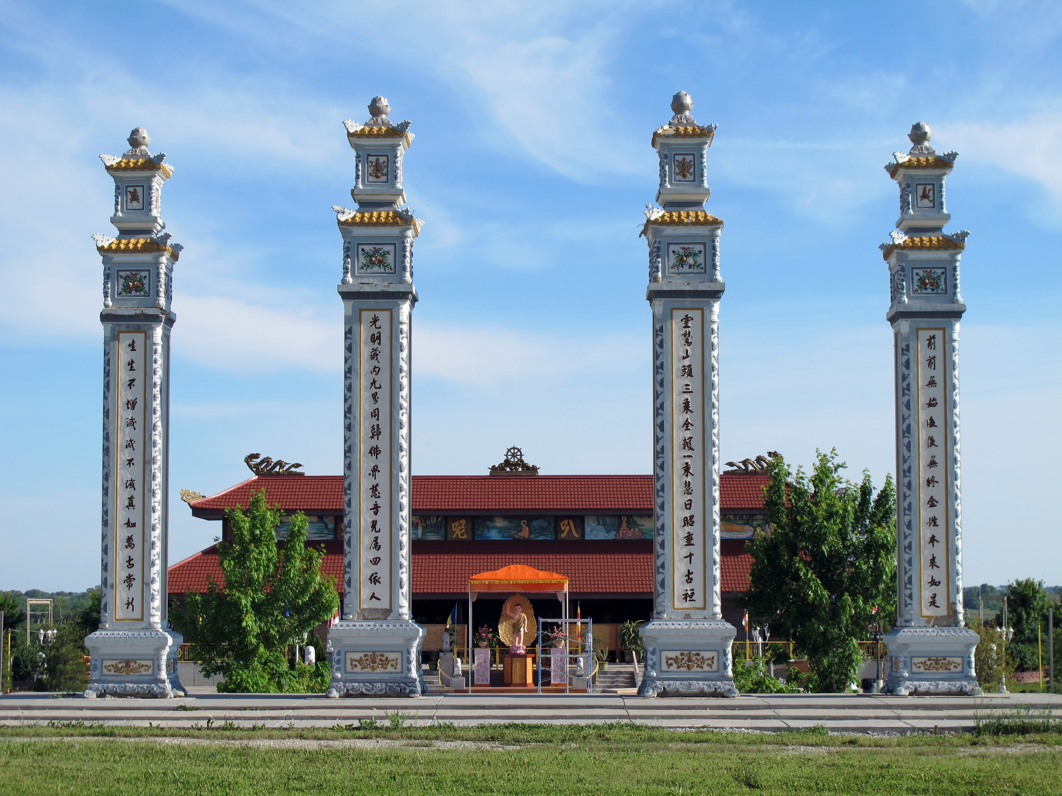 Photo of Linh Quang Buddhist Center, 3175 W. Pleasant Hill Road near Lincoln, Nebraska. Photo is taken looking south from W. Pleasant Hill Road, towards the north face of the temple.